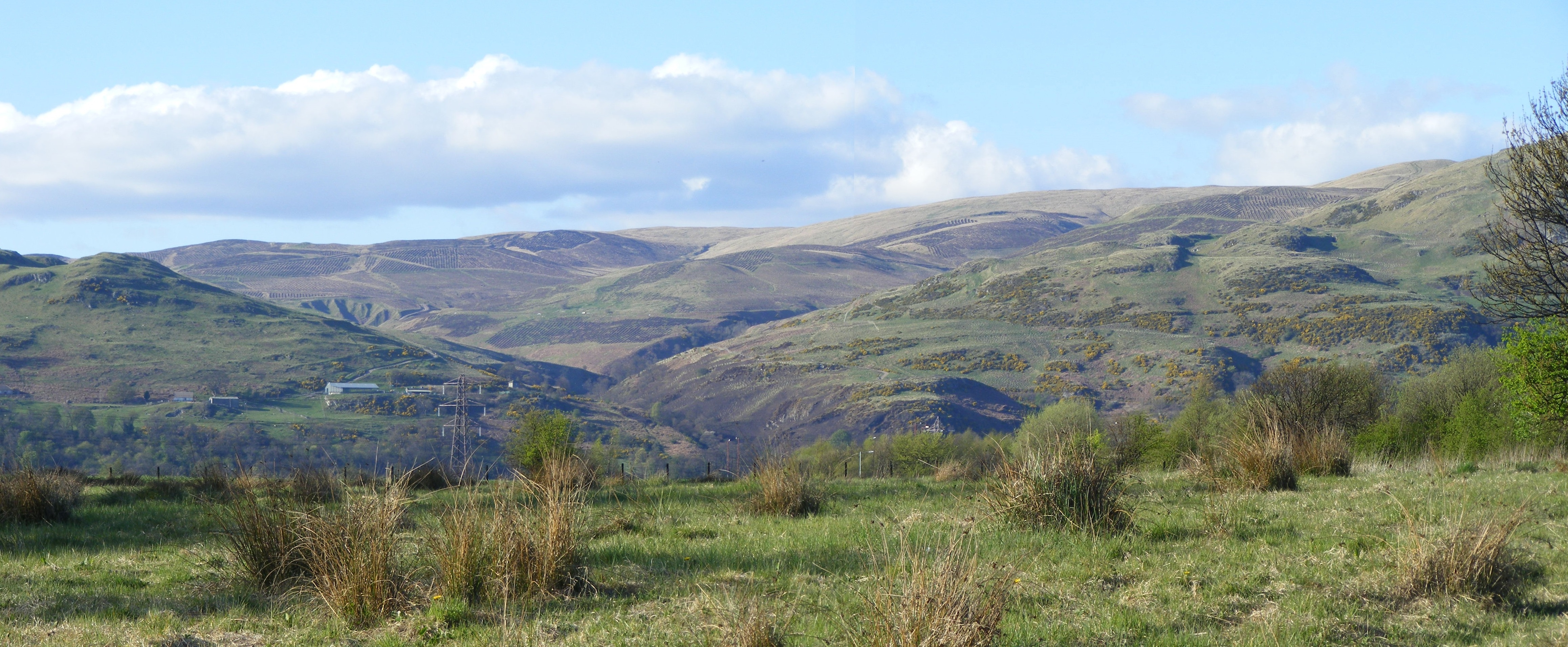 View Northwards from near Grid Reference NS 850 947 (W Tullibody) showing forestry ploughing on the Northern flanks of Menstrie Glen in April 2015